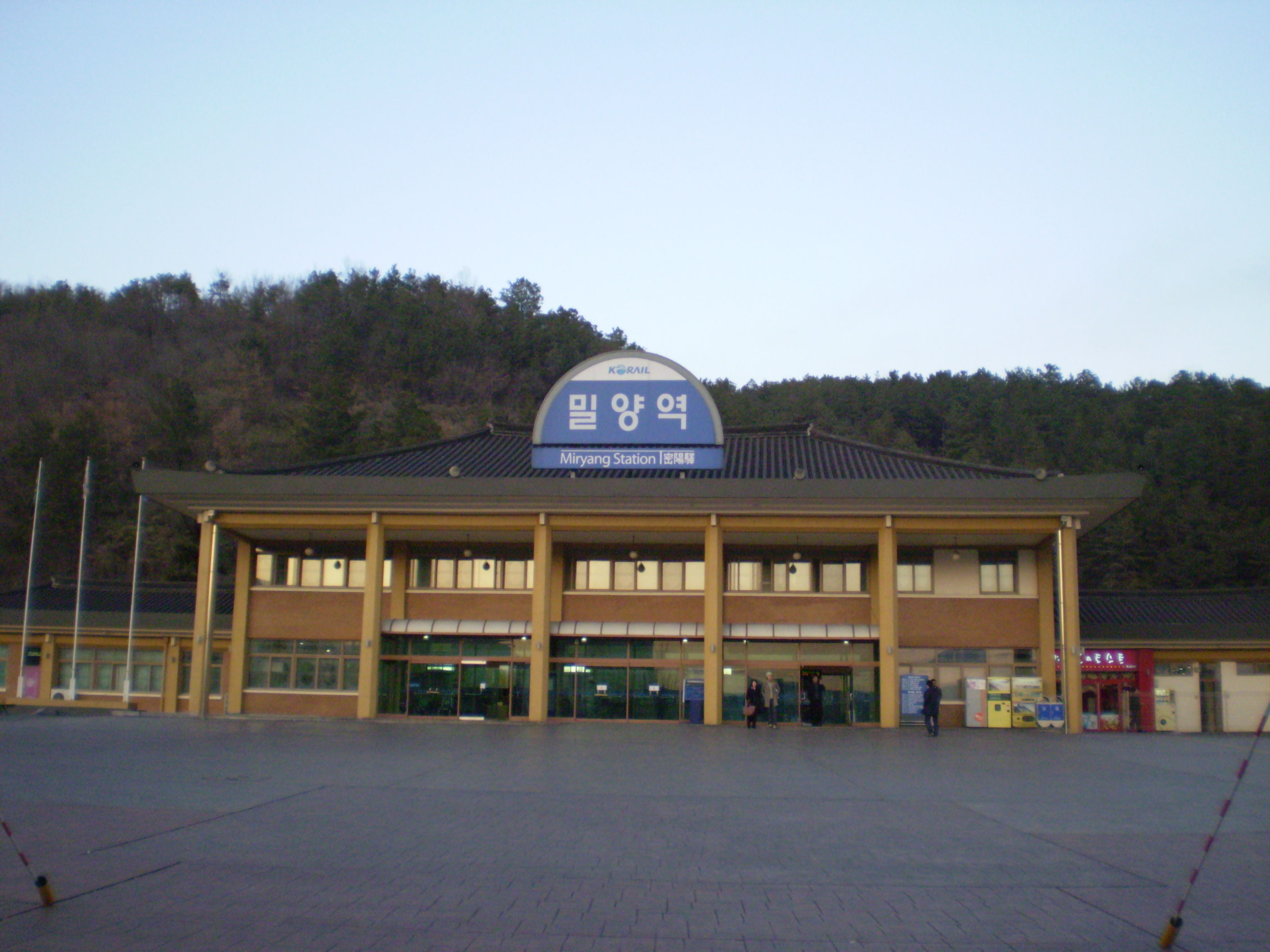 Close view of Miryang Station in Miryang, Gyeongsangnam-do, South Korea.